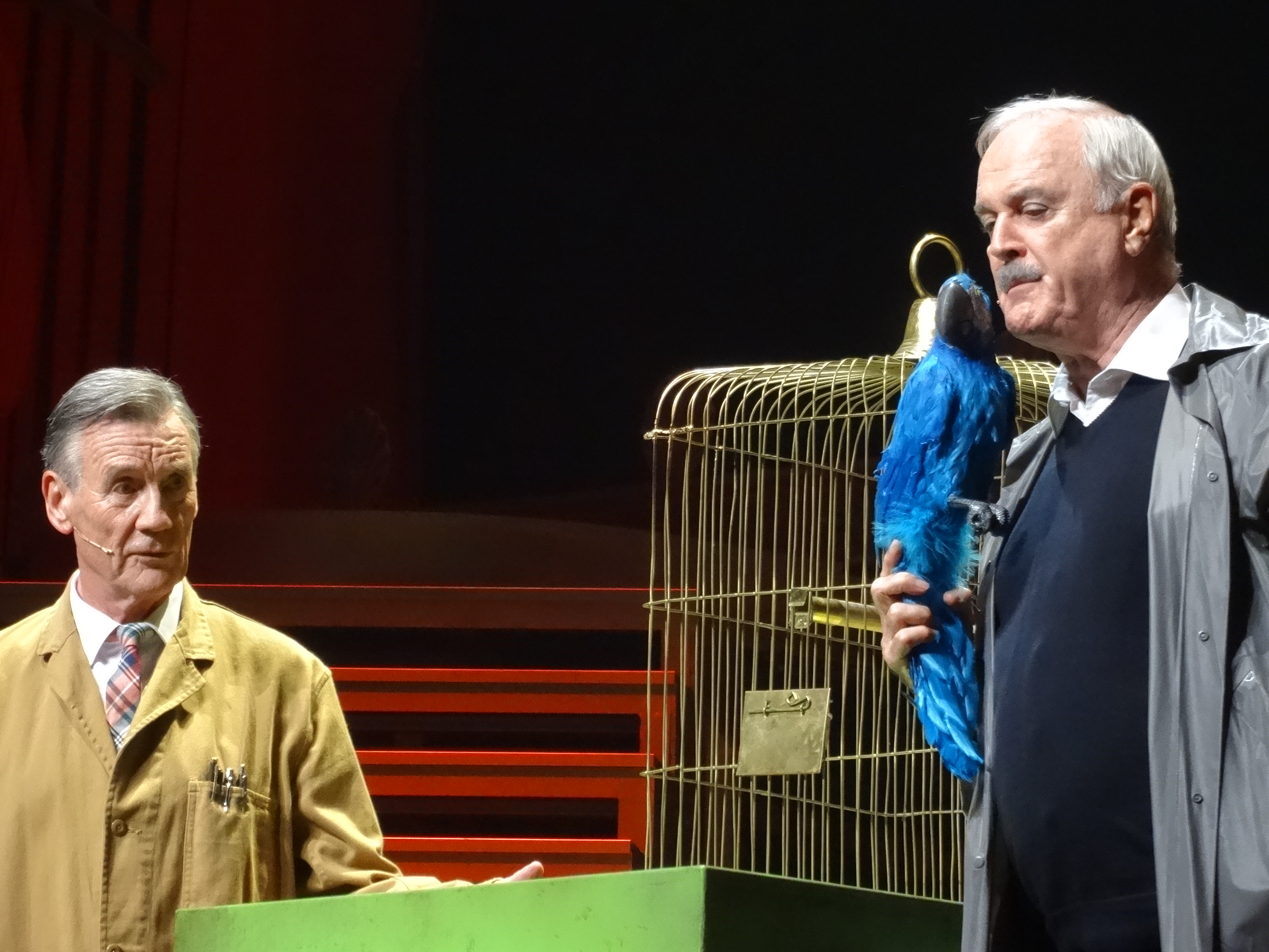 John Cleese and Michael Palin performing the "Death Parrot" sketch during the Monty Python Live (Mostly) show.